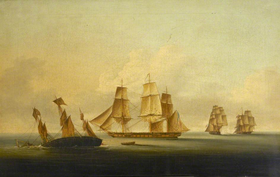 (c) National Maritime Museum; Supplied by The Public Catalogue Foundation